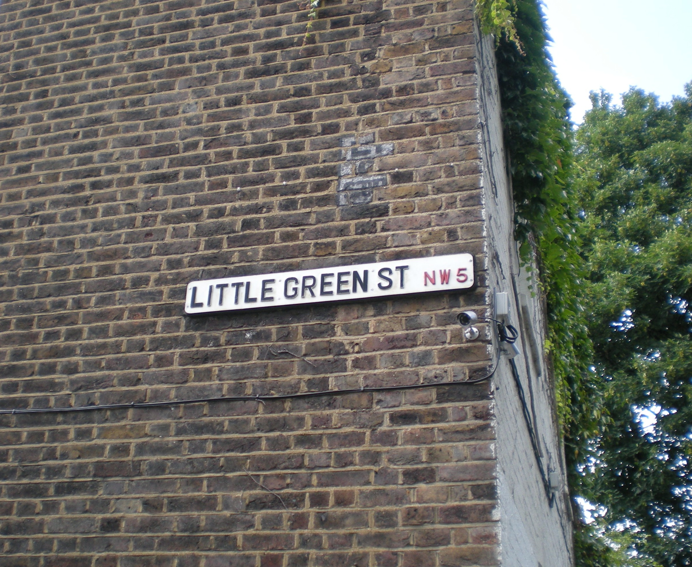 A photograph taken by me on a walk down Little Green Street, North London, in 2009.